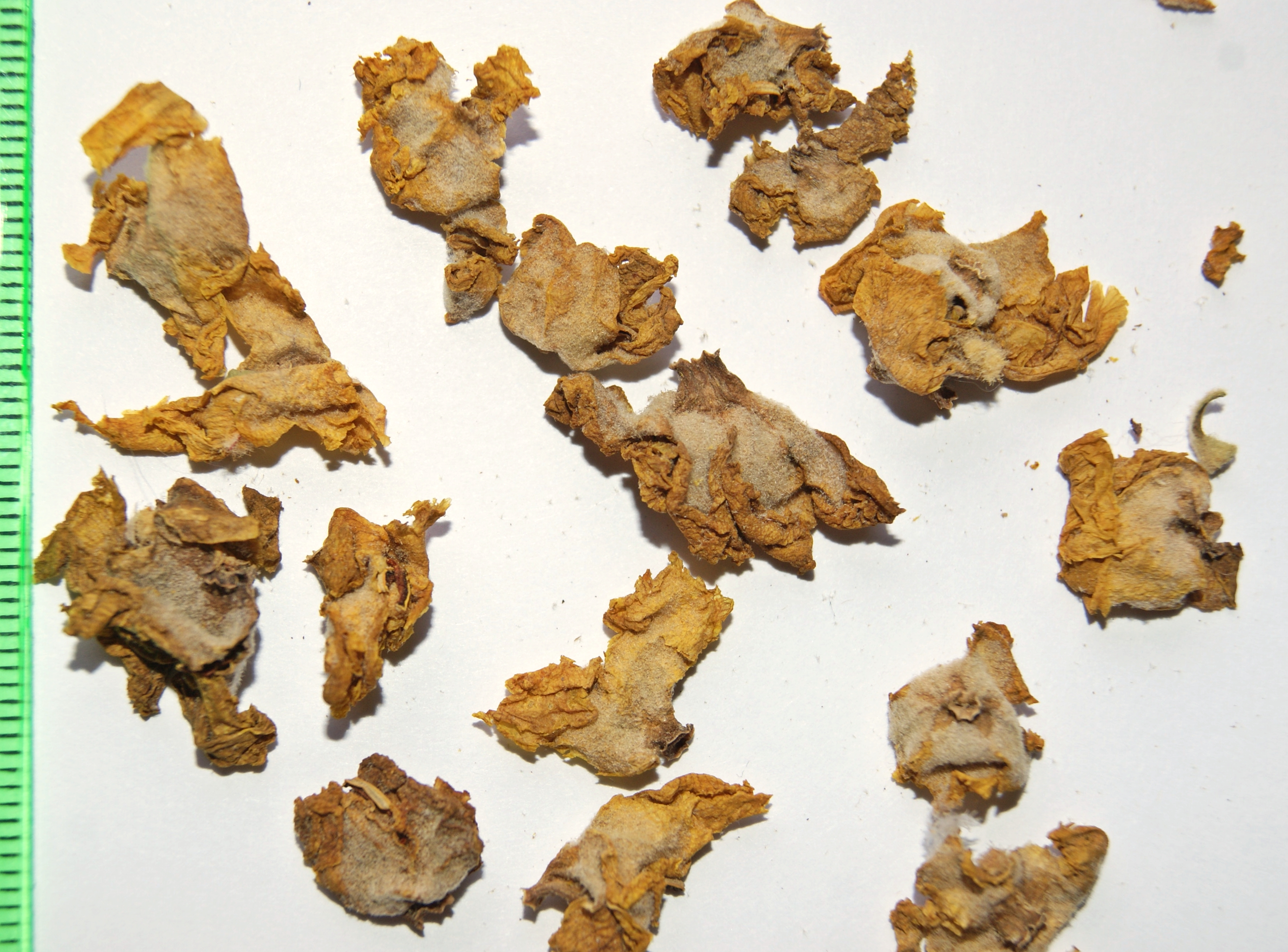 Verbascum thapsus / Verbascum phlomoides / Verbascum densiflorum